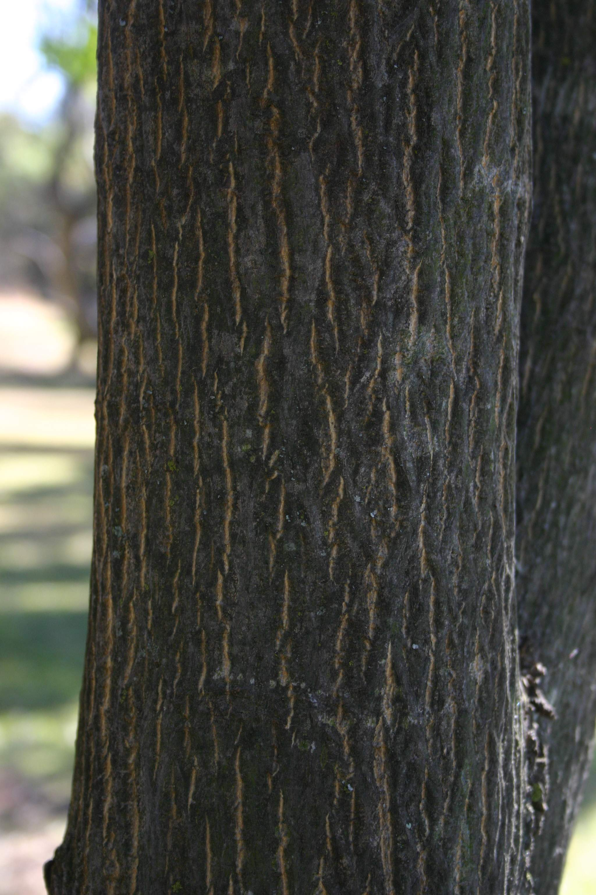 Ruimsig Botanical Gardens, Johannesburg